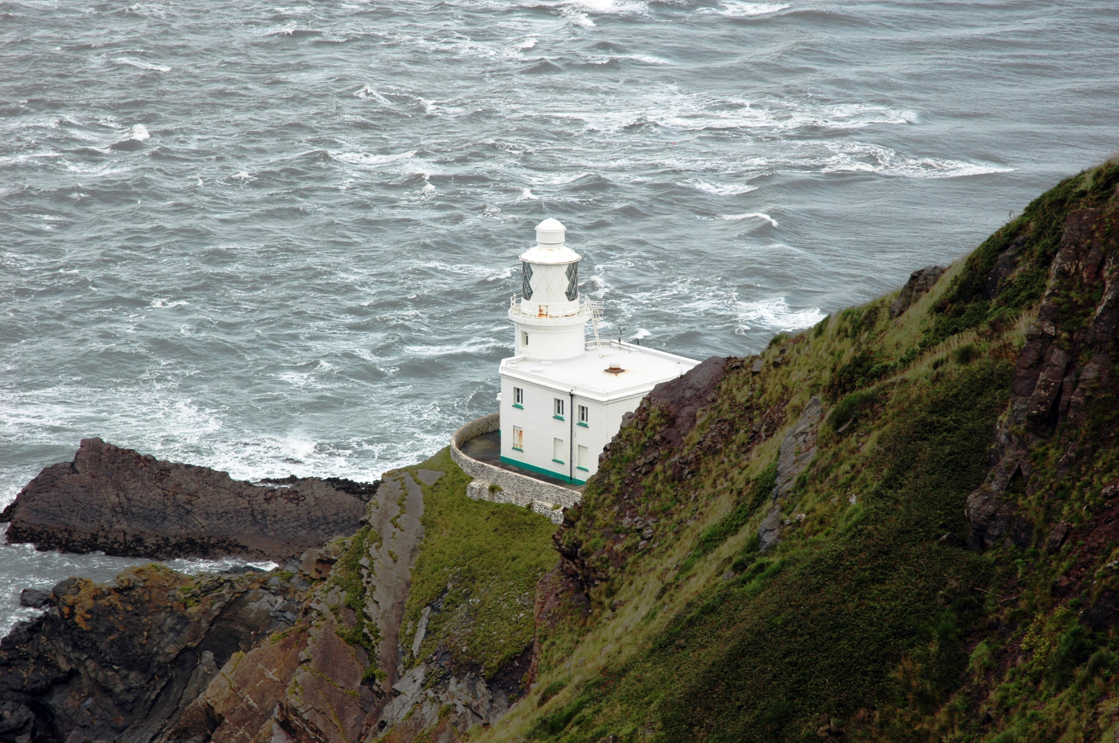 The lighthouse of Hartland Point, Devon, England.